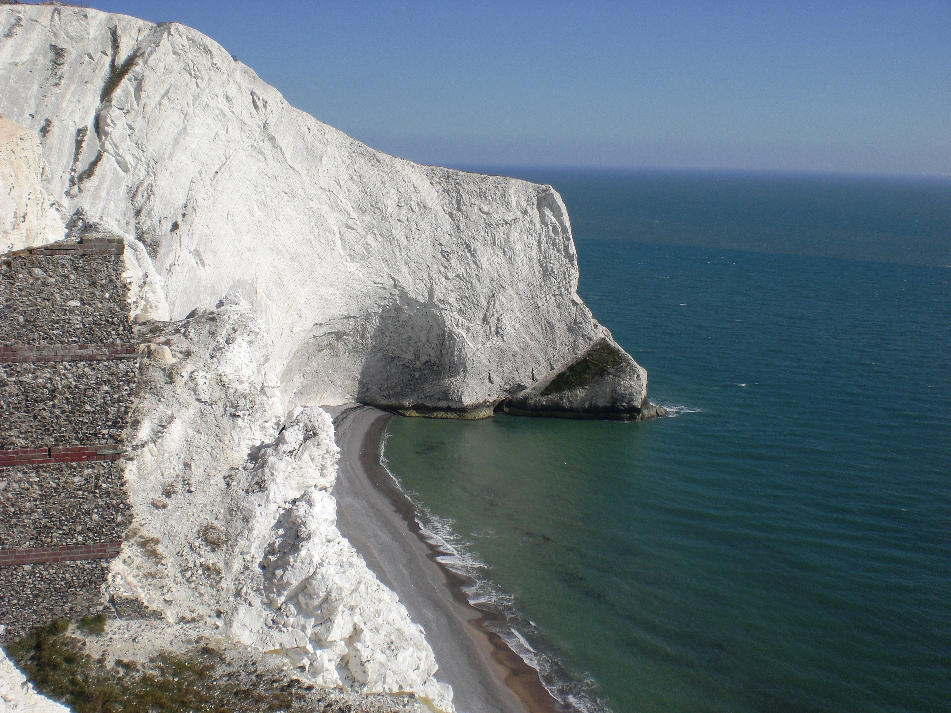 Scratchell's Bay, close to the Needles on the Isle of Wight.